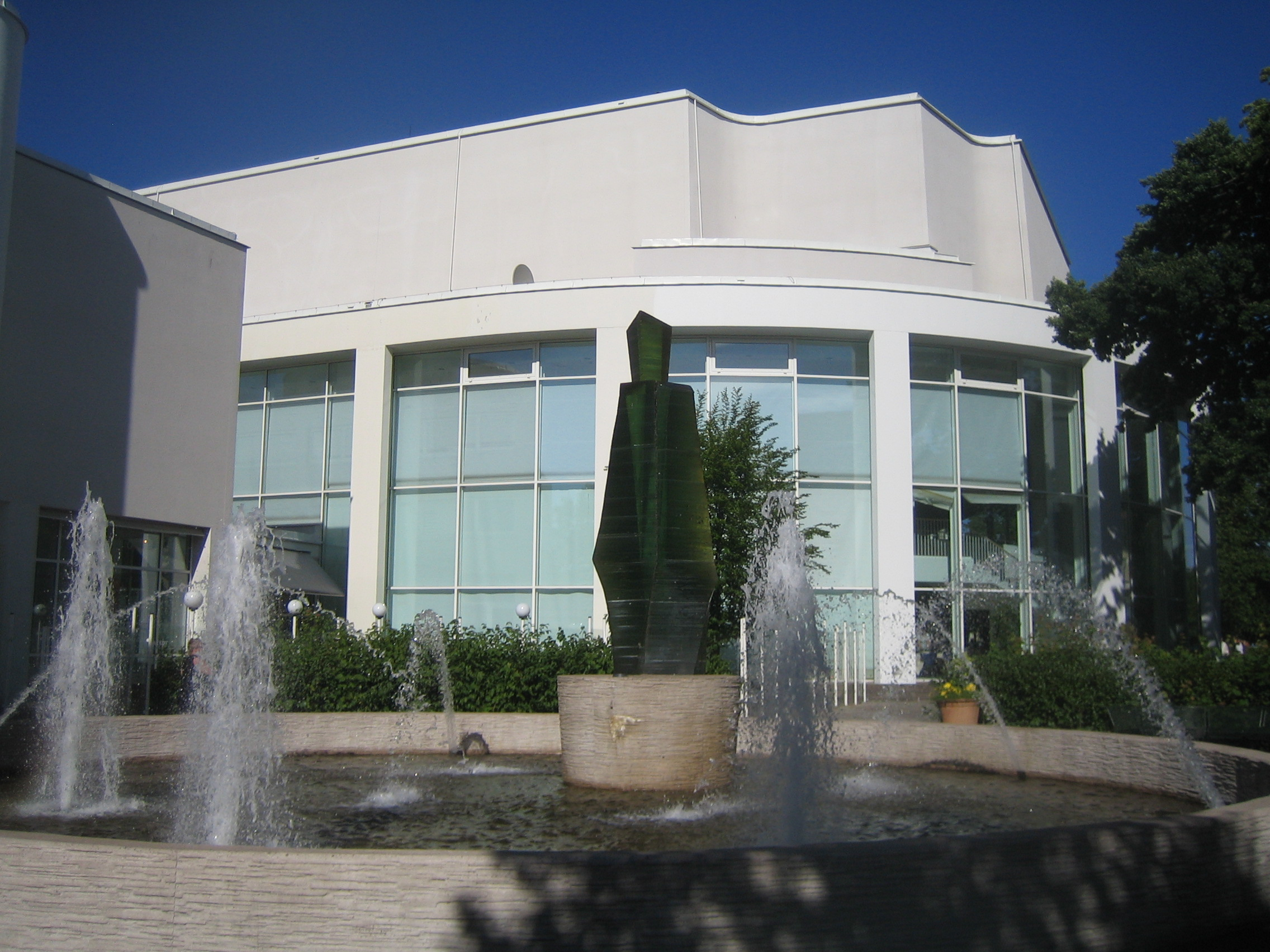 Växjö konserthus Keywords: Architecture, Housing and construction, Culture, Music, Sweden Data-uid: d00db1691ddf48876e23f8e96bdcb549